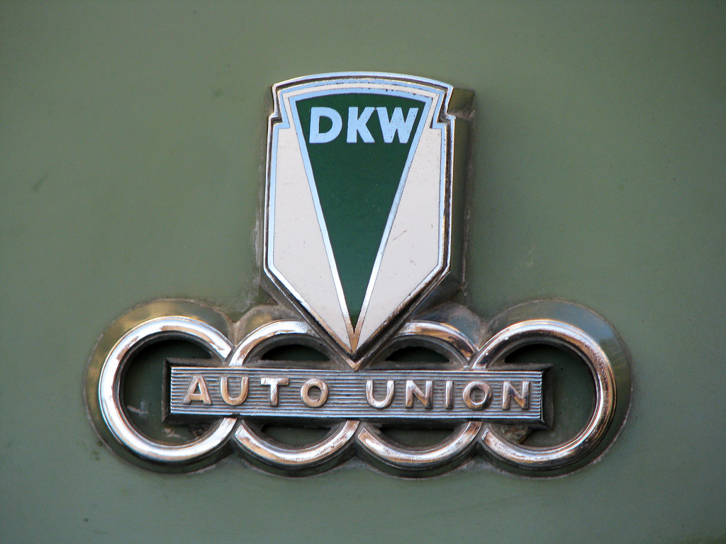 Seen on the bonnet of a DKW Auto Union 1000 in Buenos Aires, Argentina